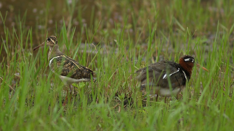 A pair of Greater Painted-snipe （彩鷸） Rostratula benghalensis, Taoyuan County, Taiwan.